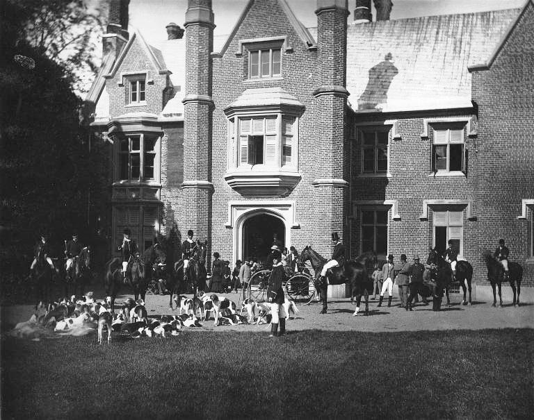 Photograph, Fox hunt, Montreal Hunt Club, St. Hilaire, QC, 1882, Meet at Manoir Rouville-Campbell, Wm. Notman & Son, Silver salts on glass - Gelatin dry plate process, 20 x 25 cm